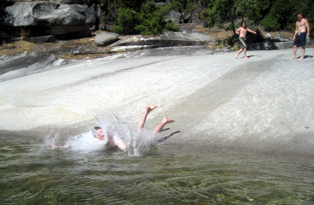 Visitors slide down the granite Silver Apron of the Emerald Pool, halfway up the Grand Staircase of the Merced River at the east end of the Yosemite Valley, Yosemite NP.